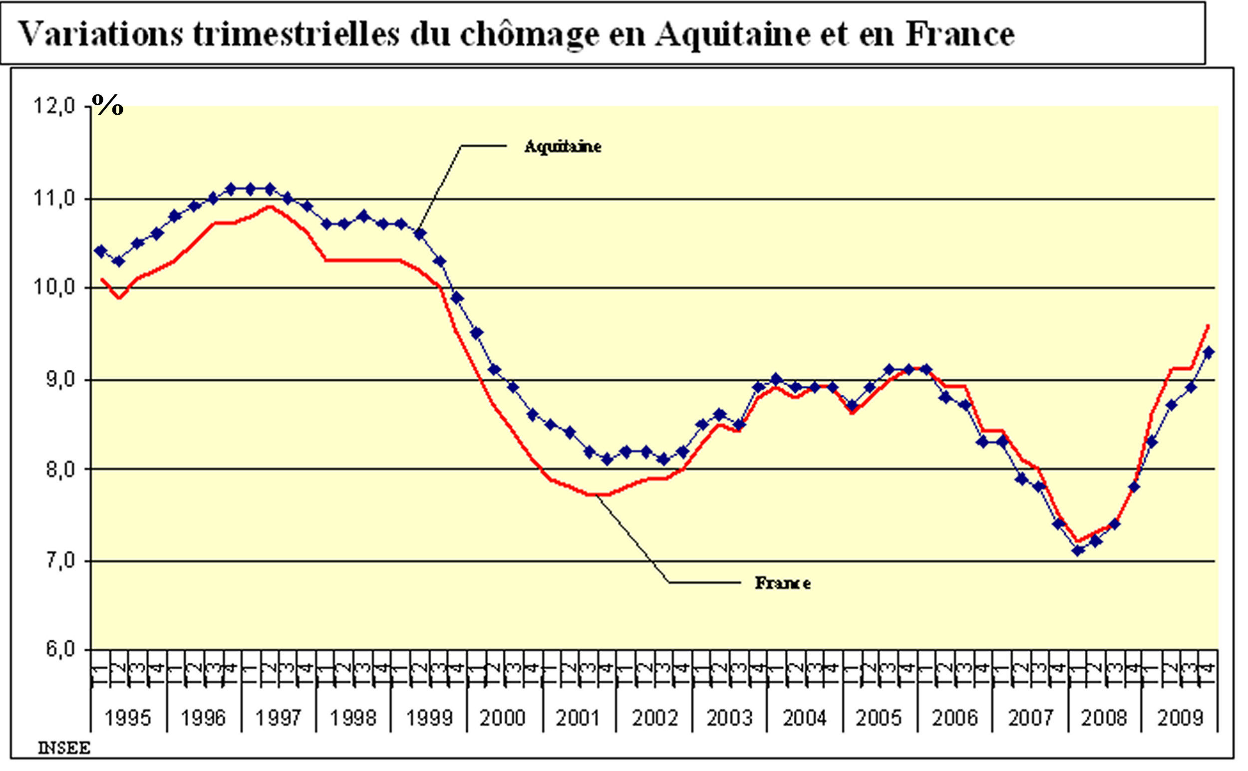 Quarterly changes in unemployment in Aquitaine (1995-2009)